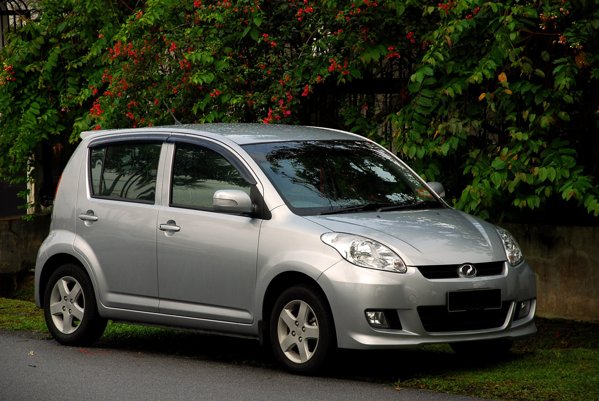 Silver facelifted Myvi.